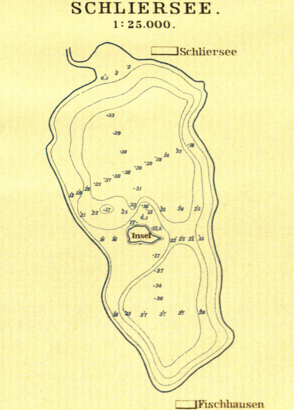 bathymetric maps of lakes of the Bavarian Alps: Tachinger See Waginger See Spitzingsee Tegernsee Kochelsee Schliersee